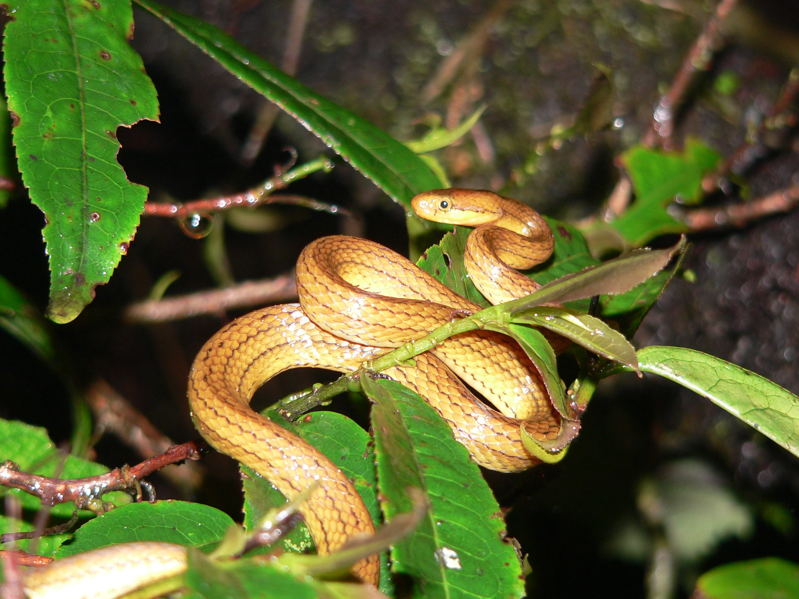 Compsophis laphystius (Colubridae); Ranomafana National Park, Madagascar